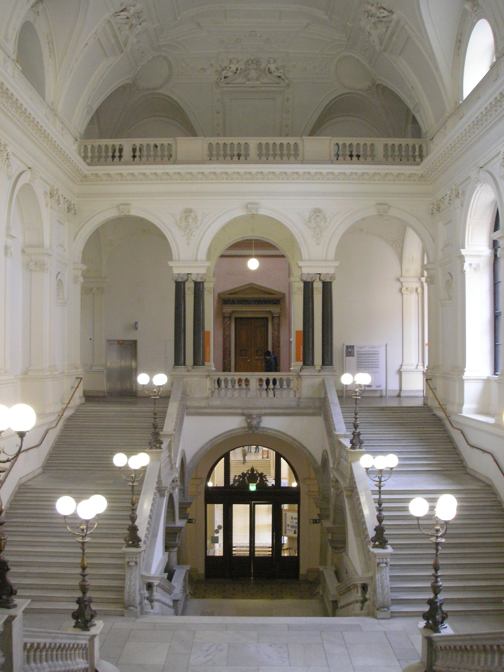 Description: View of one of the main stairs (Hauptstiege) in the University of Vienna. Source: self-made, I release it into the public domain.